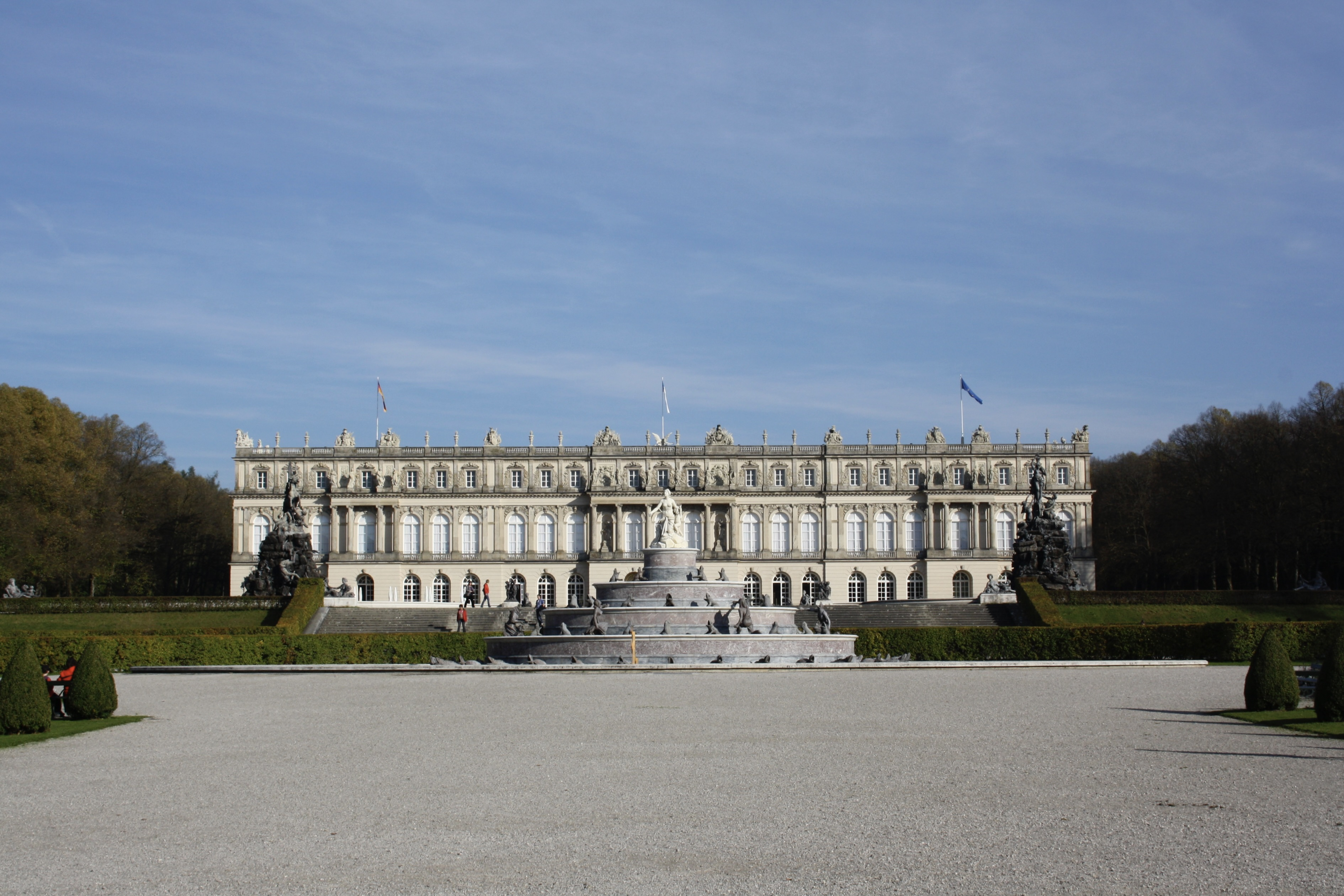 castle Herrenchiemsee